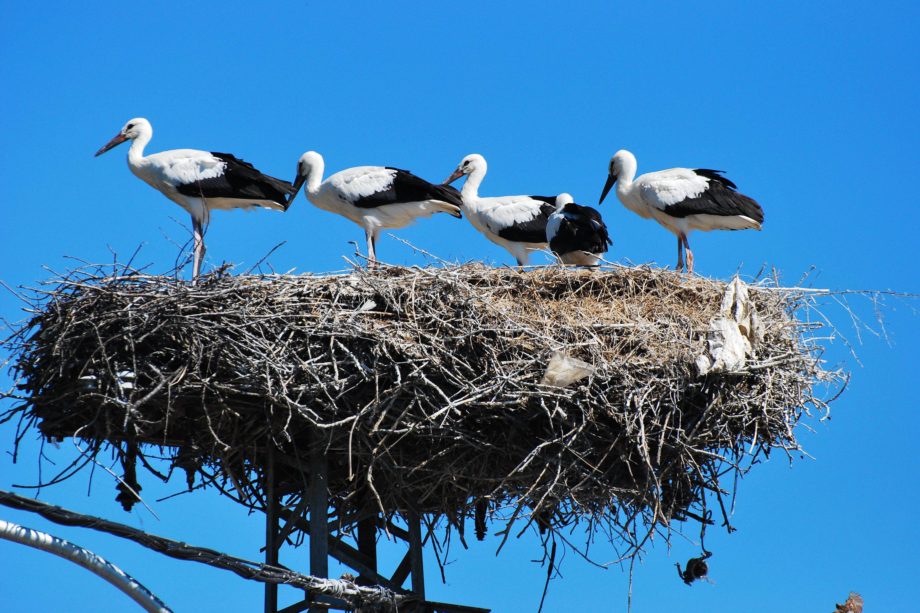 White storks in Dunabogdány, Hungary (2011)